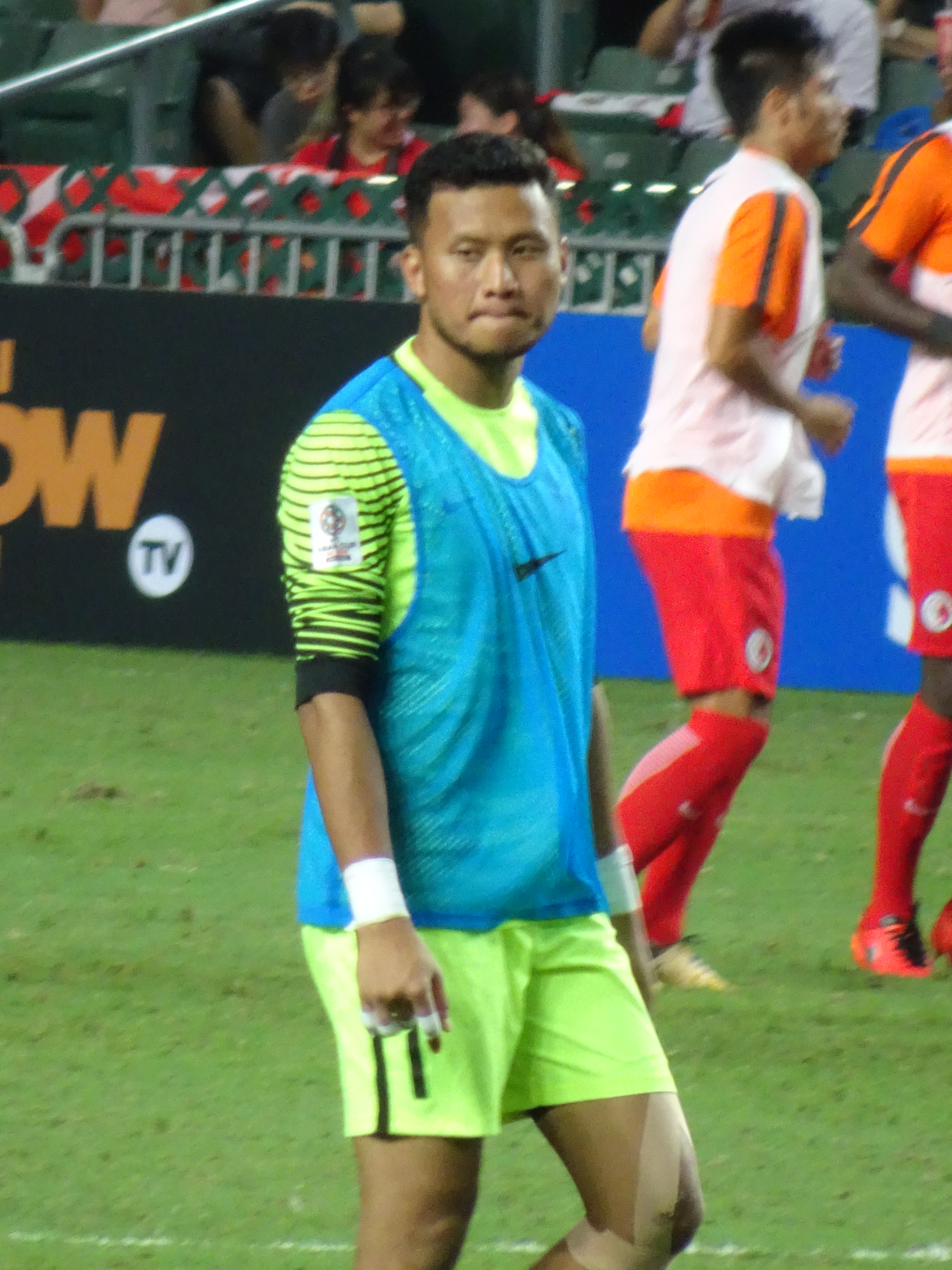 Khairulazhan Khalid (10 Oct 2017, Asian Cup Qualifier, Hong Kong vs Malaysia, Hong Kong Stadium)